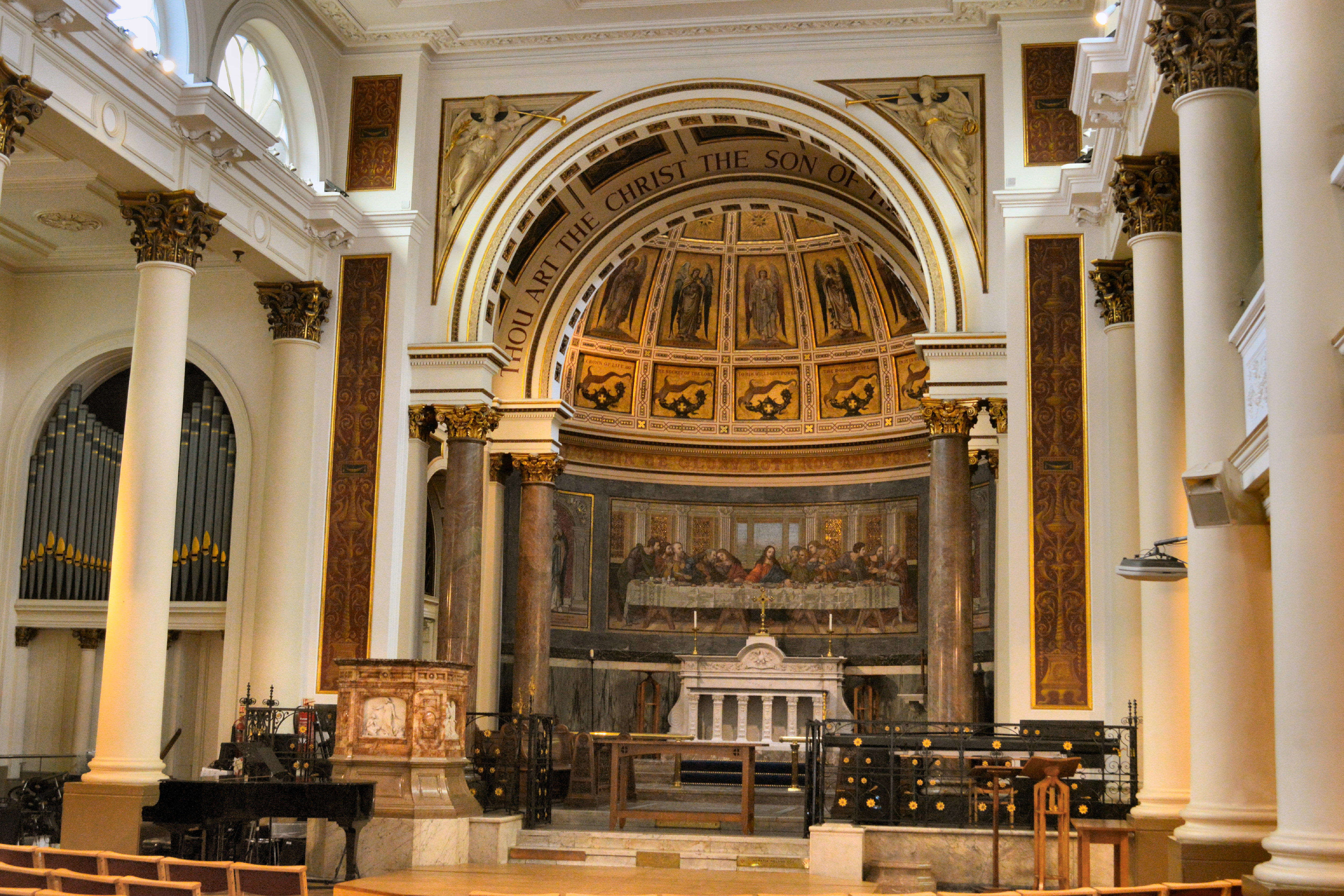 Notting Hill, St Peter's Church, sanctuary. The spandrels of the western chancel arch are ornamented with a pair of angels bearing gilded trumpets and garlands, by Charles H Mabey. The wall of the apse is decorated with a Venetian mosaic by Messrs Burke & Salviati (1880).. The subject is Leonardo da Vinci’s Last Supper based on Oggione’s copy of da Vinci’s work; the treatment differs from the original in the arrangement of the background, which was designed by Charles Barry Jnr to harmonise with the architecture in this part of the church. Above the Last Supper mosaic are depicted the lamps, angels and stars of the Seven Churches of Asia.